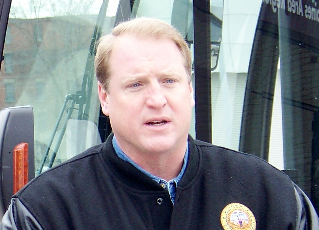 Chet Culver at the I-JOBS press conference